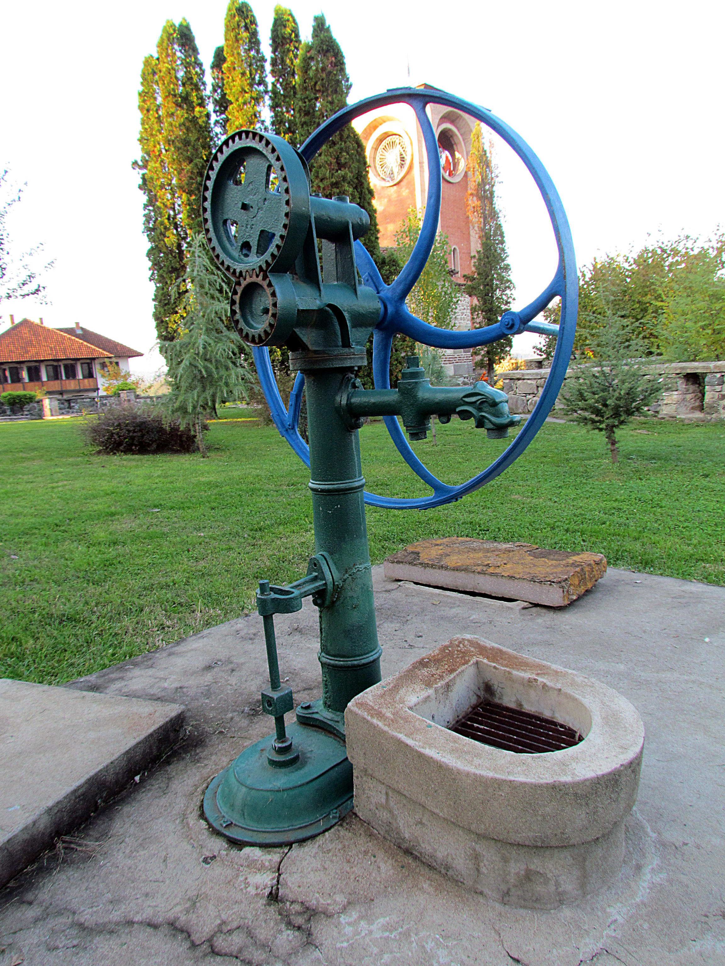 Pump from Žiča monastery, Serbia